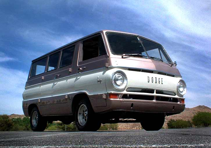 1965 Dodge A100 Custom Sportsman Van, Photo by Justin S. Cheshire